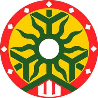 The redos ratas symbol used for the Druwi religion, and logo of the Kurono Academy of Baltic Priesthood (Baltųjų žynių mokykla Kurono or Kurono akademija).